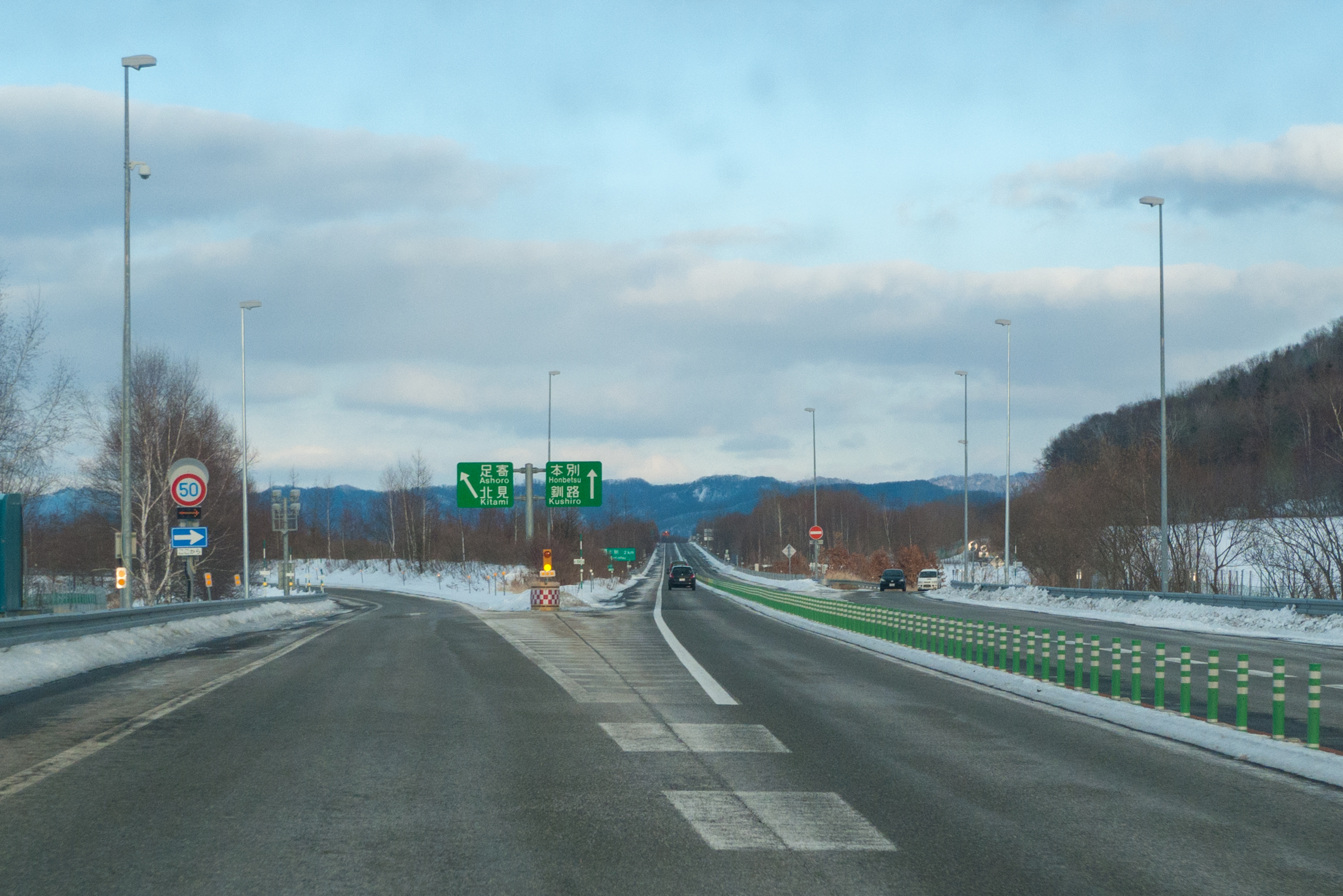 Honbetsu Junction on the Doto Expressway in Honbetsu Town, Hokkaido, Japan